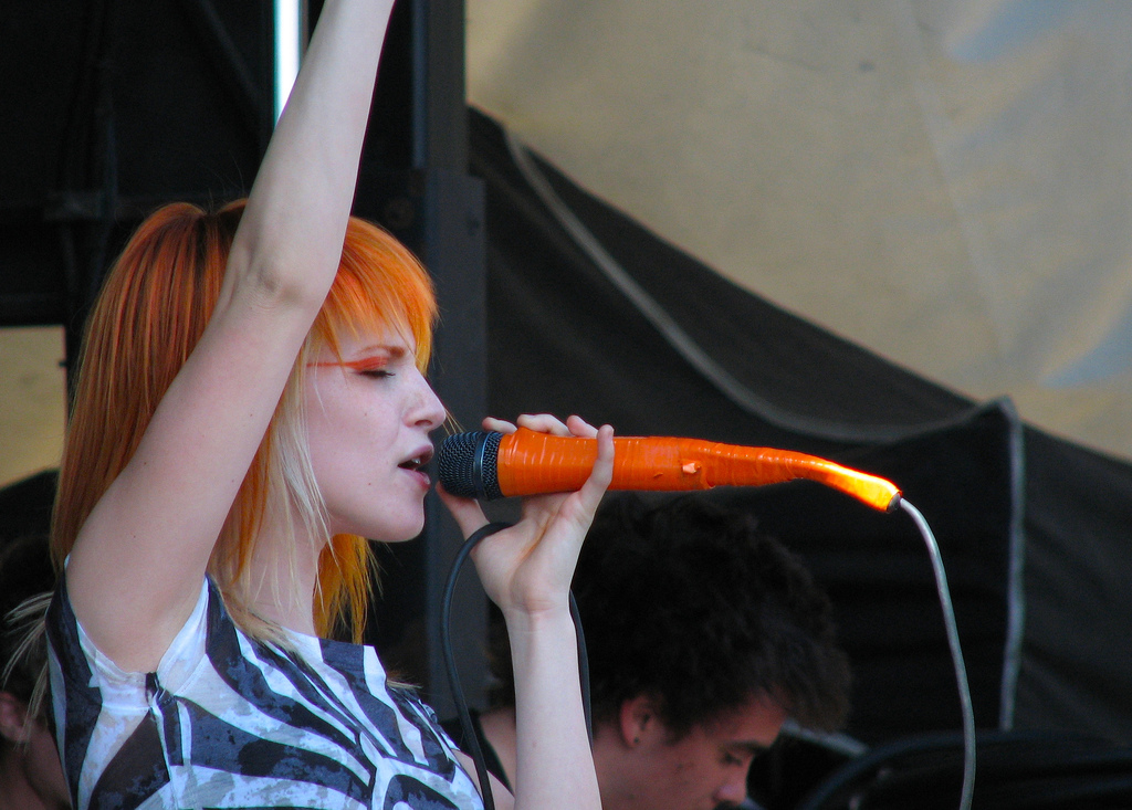 Hayley Williams of Paramore playing at the Van's Warped Tour, 2007 in Vancouver, Thunderbird Stadium at UBC.